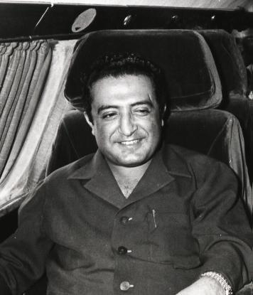 President Ibrahim Al-hamdi (1943-1977)